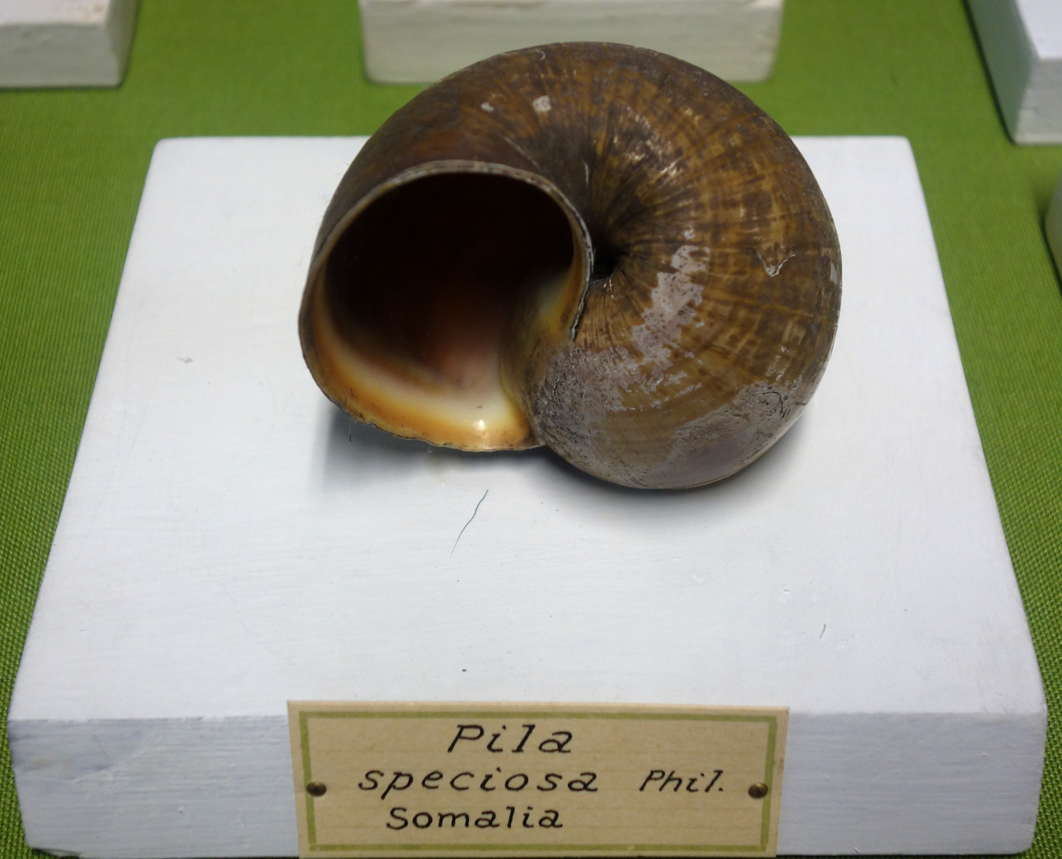 Exhibit in the Museo Civico di Storia Naturale di Genova, Via Brigata Liguria, 9, 16121, Genoa, Italy.